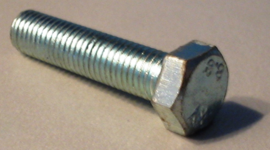 bout